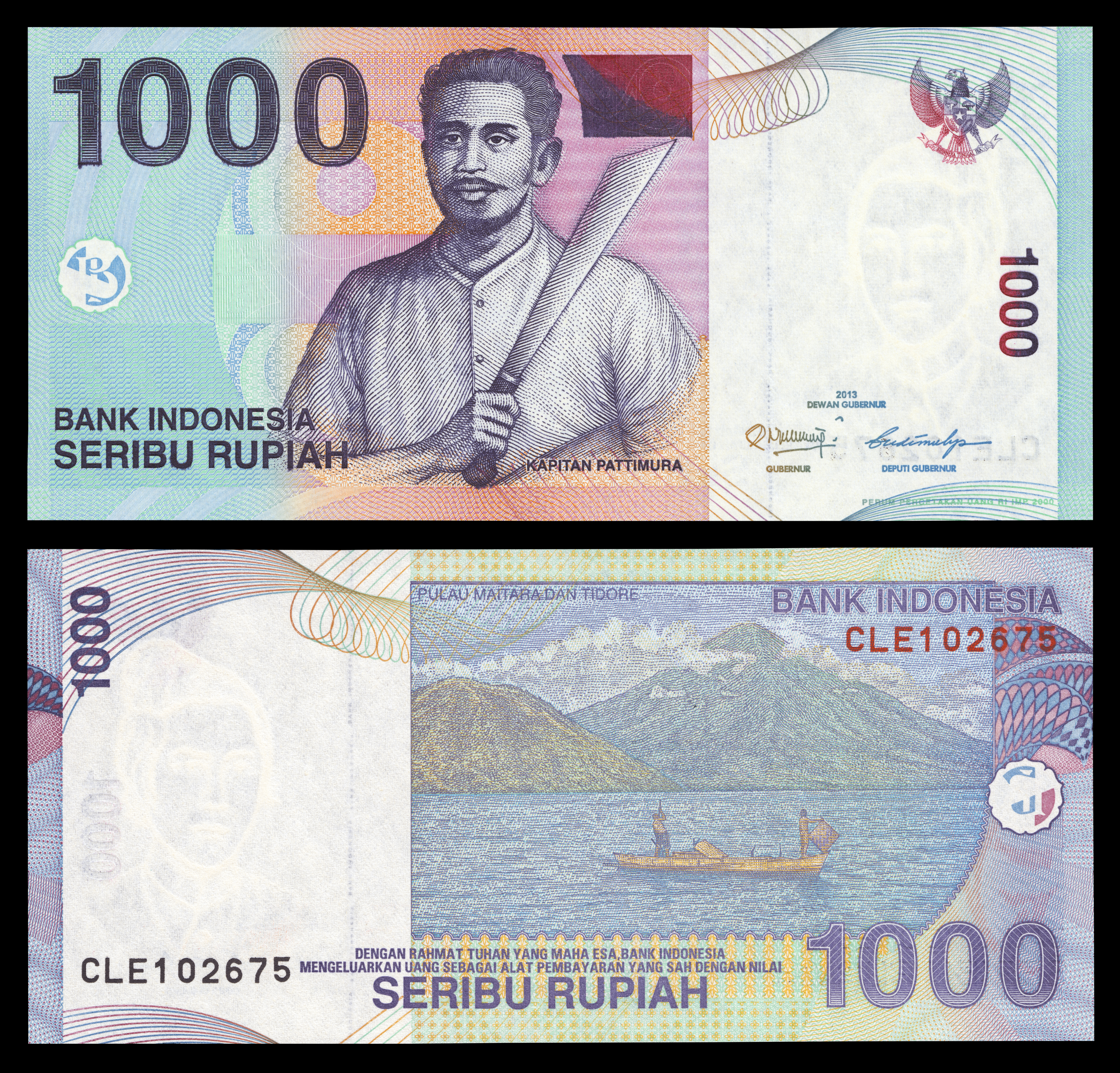 1000 rupiah bill, 2014 series, processed, obverse+reverse